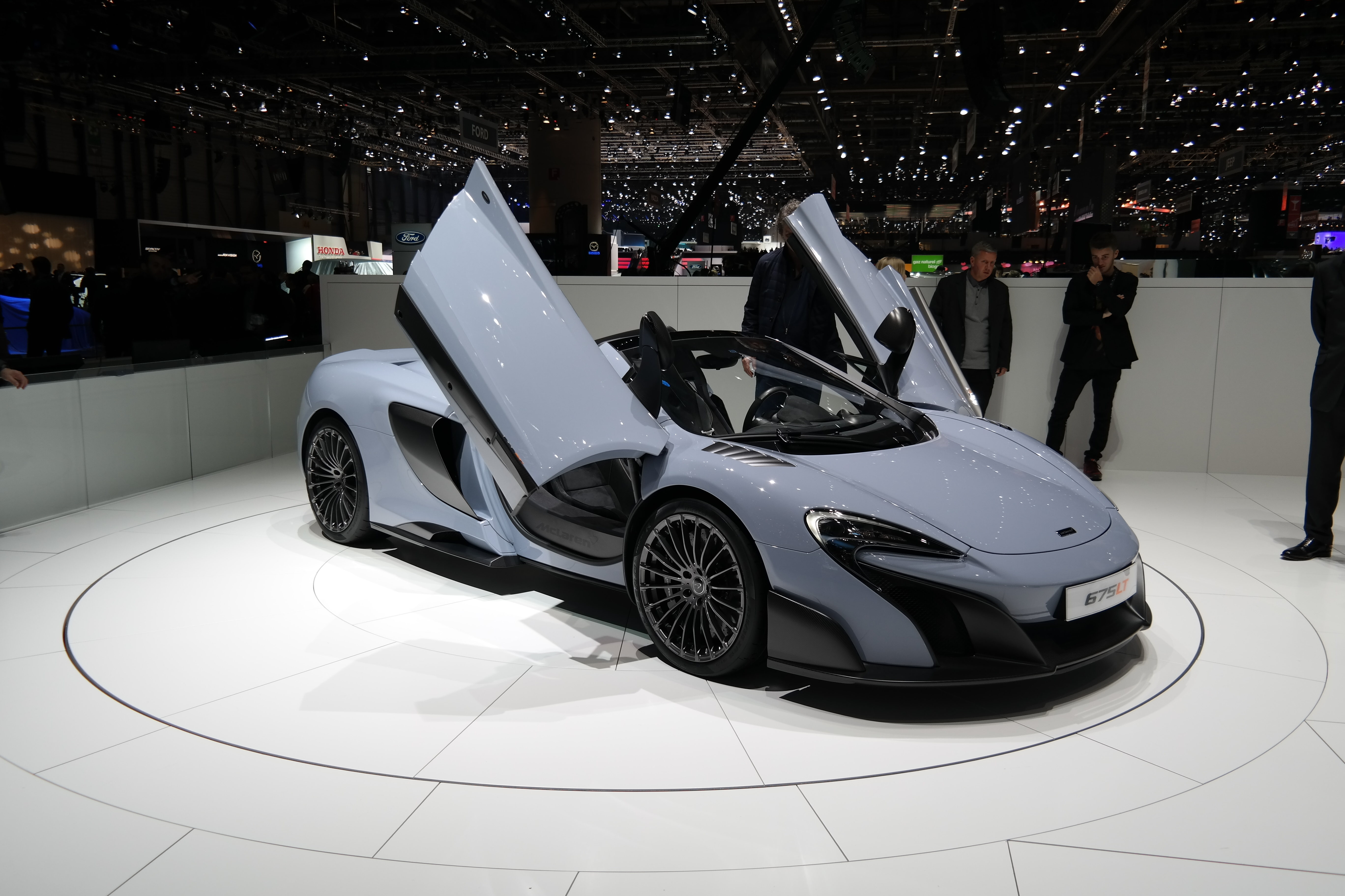 Geneva Motor Show 2016 (photo taken on the first press day)